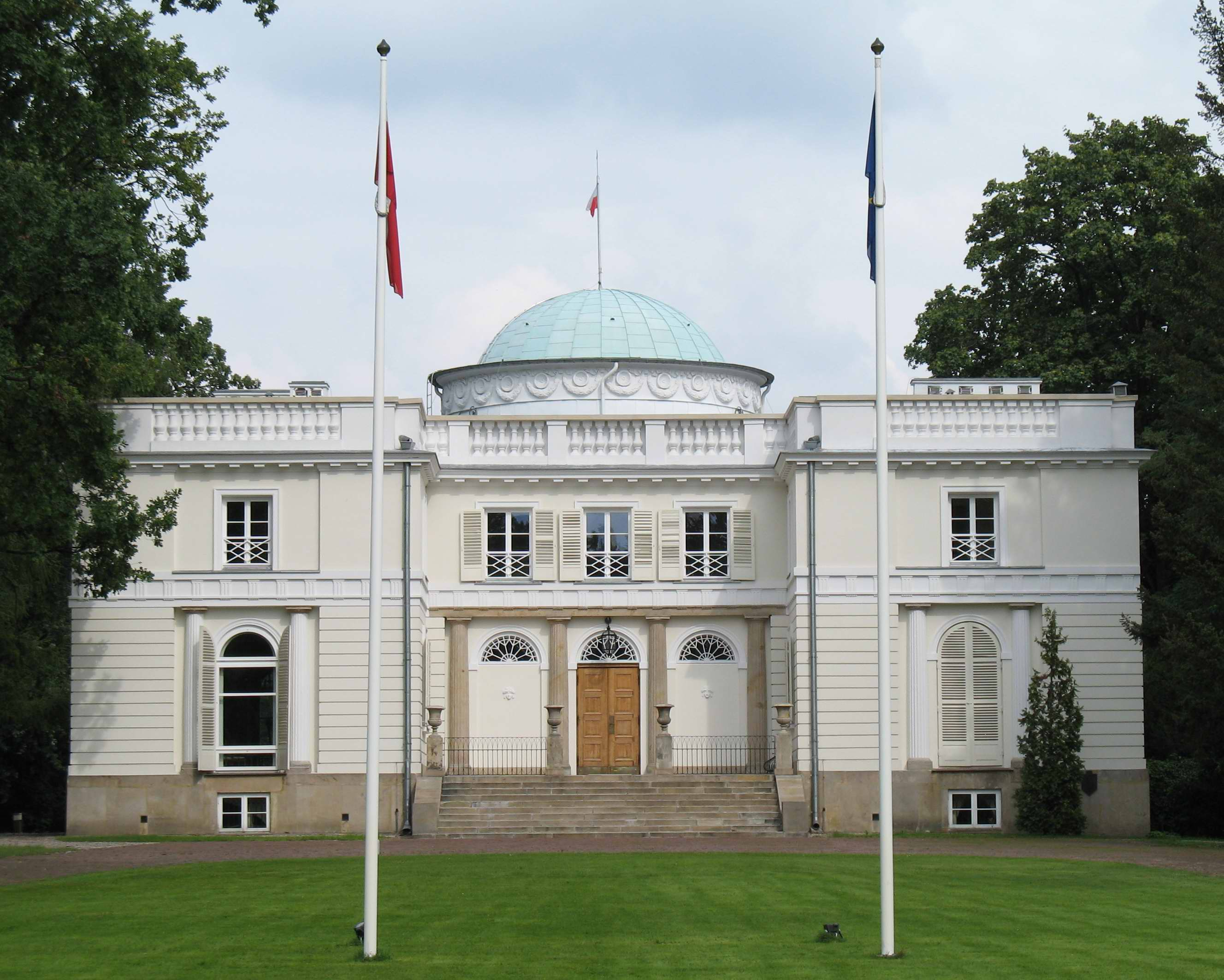 Potoccy Palace in Natolin (Warsaw), view from west